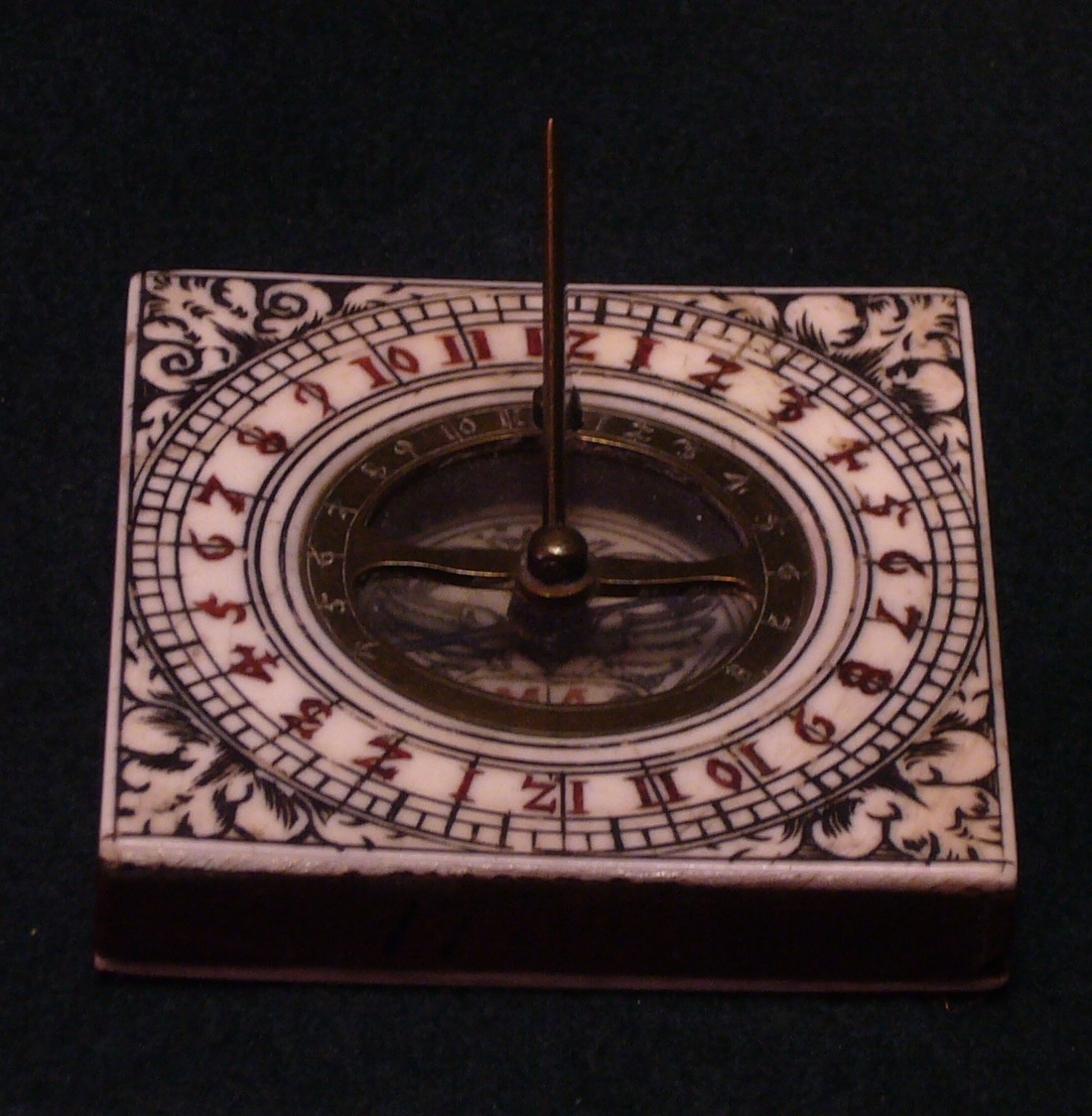 Pocket sundial from the 16th Century, from the Louvre in Paris